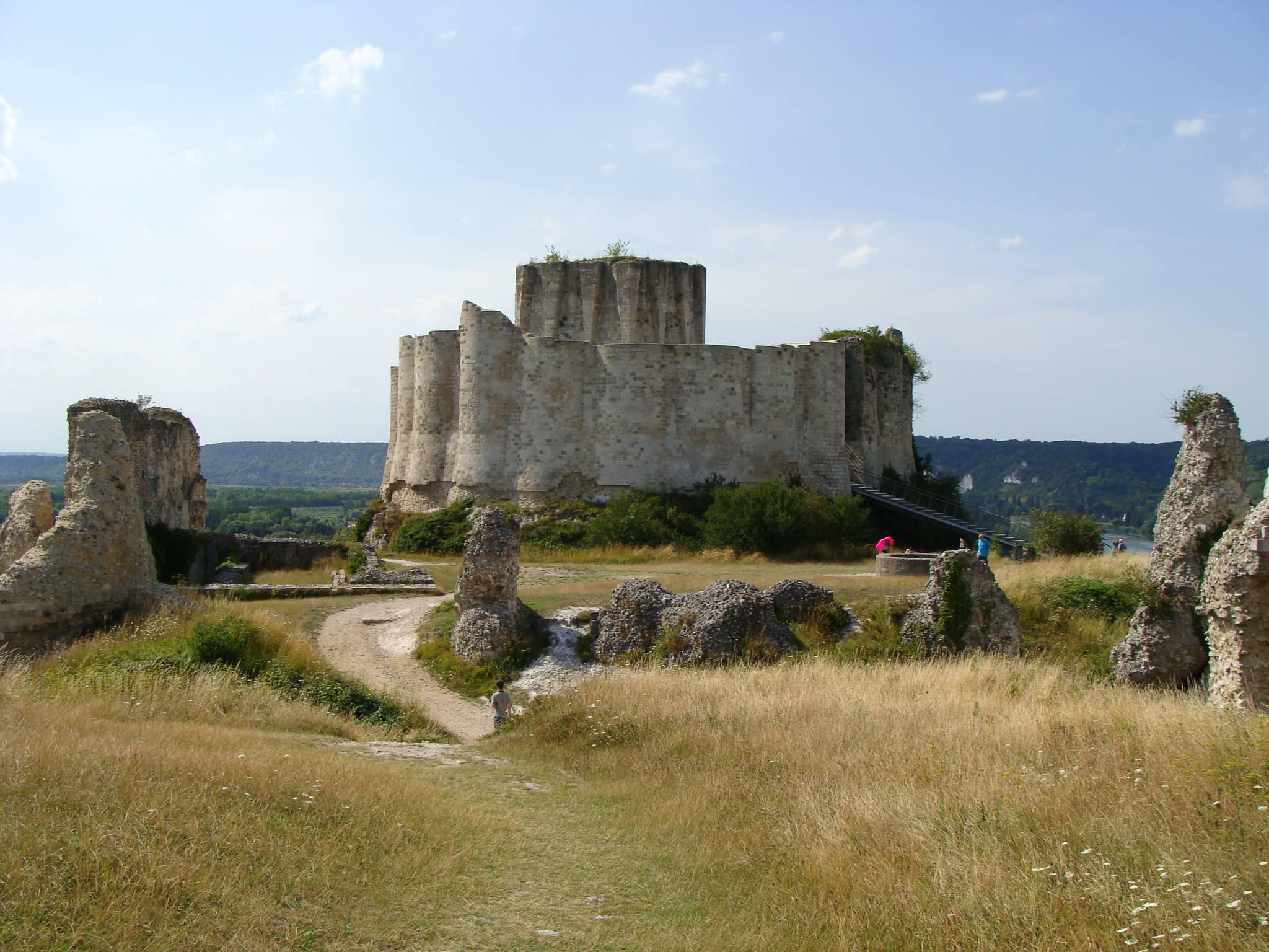 castle of Chateau-Gaillard in Normandy